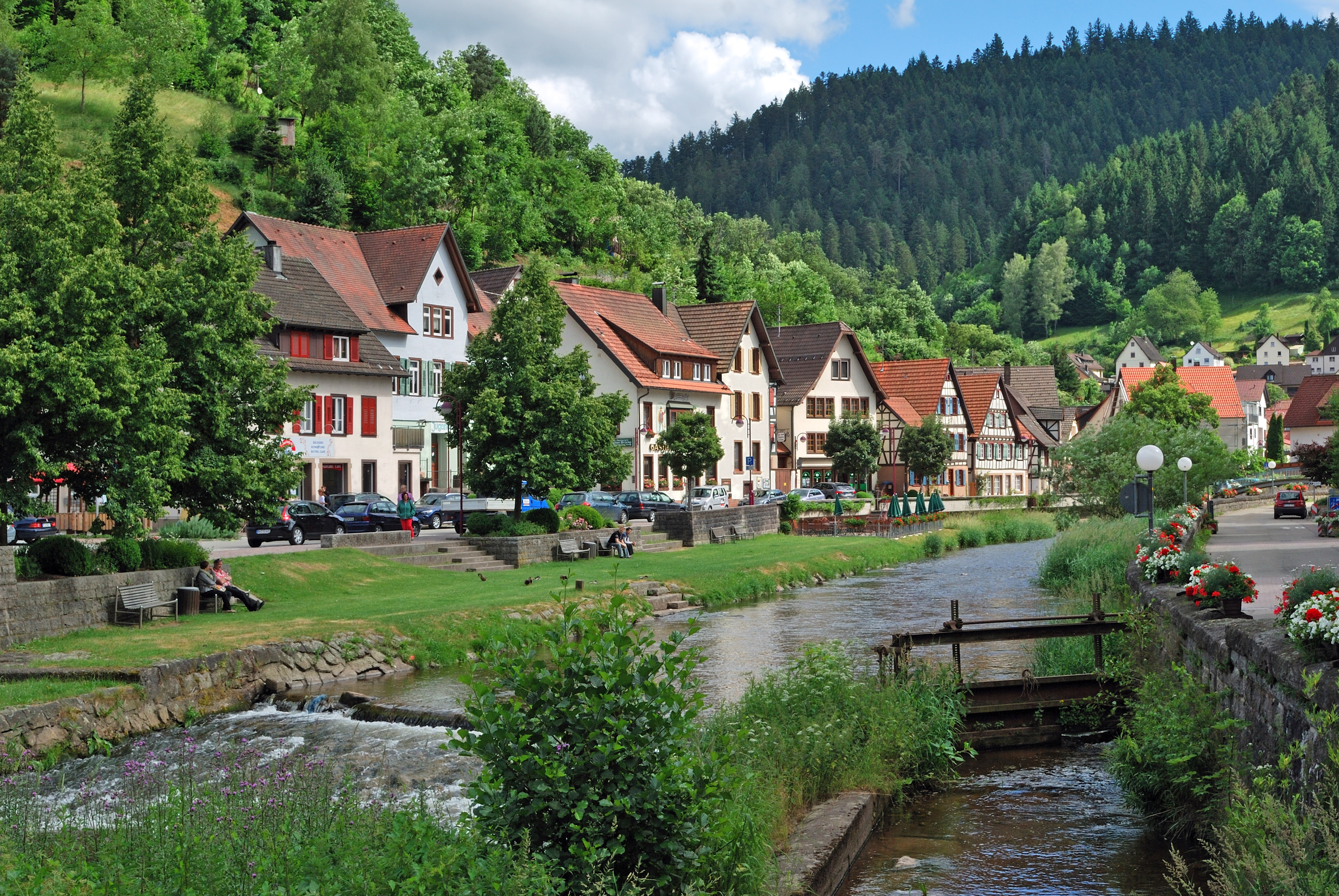 The river Schiltach in Schiltach in the Black Forest in Germany.